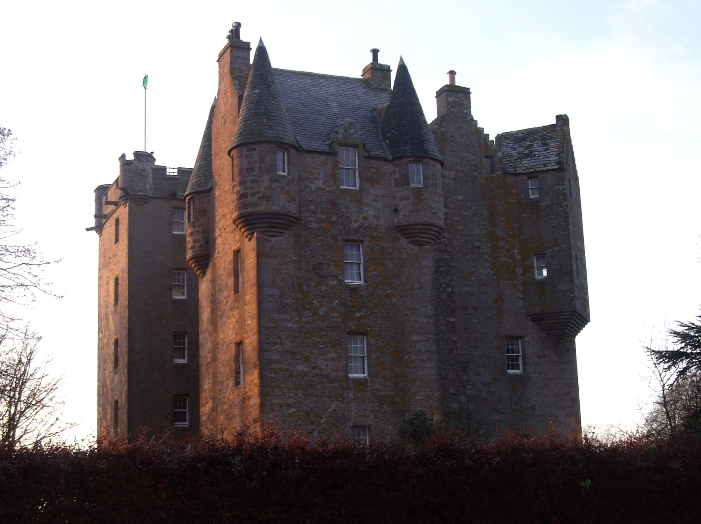 Situated on the coastal plain between Inverness and Fort George (Ardersier), Castle Stuart is a 17th century structure standing out from the otherwise flat agricultral land. It is currently staging a Santaland attraction, to which my grandson went today with his mother and grandmother, while yours truly sat about outside - thankfully I had my camera with me, as it was a long wait!!